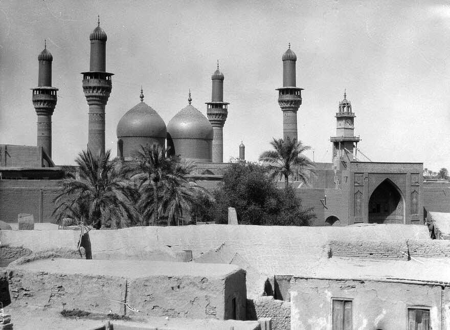 Al-Kadhimiya Mosque - 1932